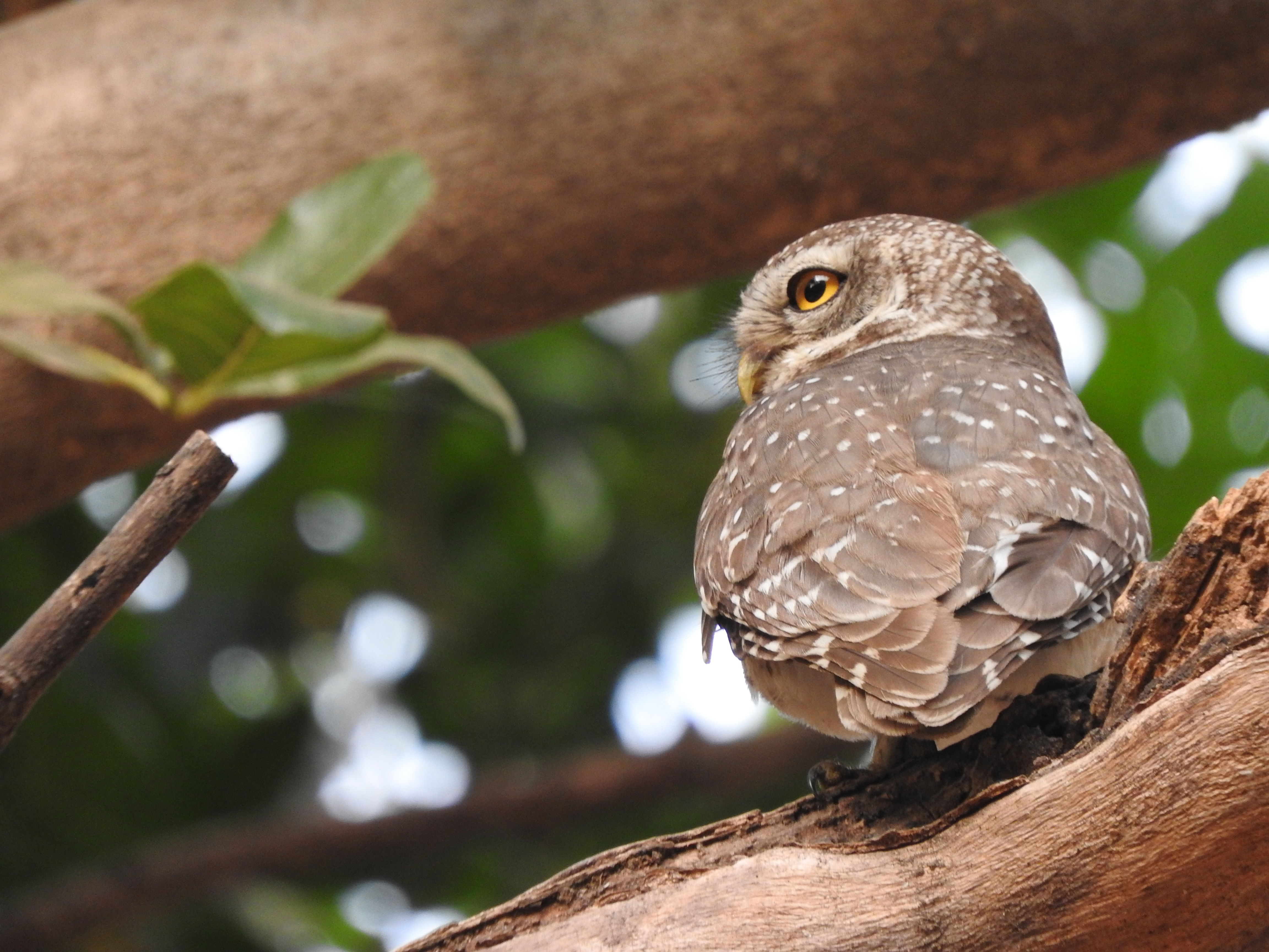 Spotted Owlet taken in College of Engineering, Guindy Anna University, Chennai